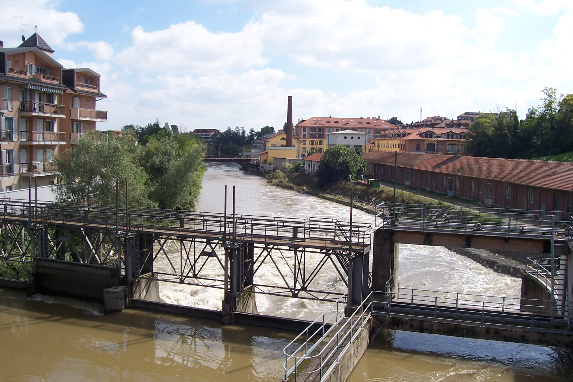 The Lambro river in Melegnano from via Dezza bridge (south view)